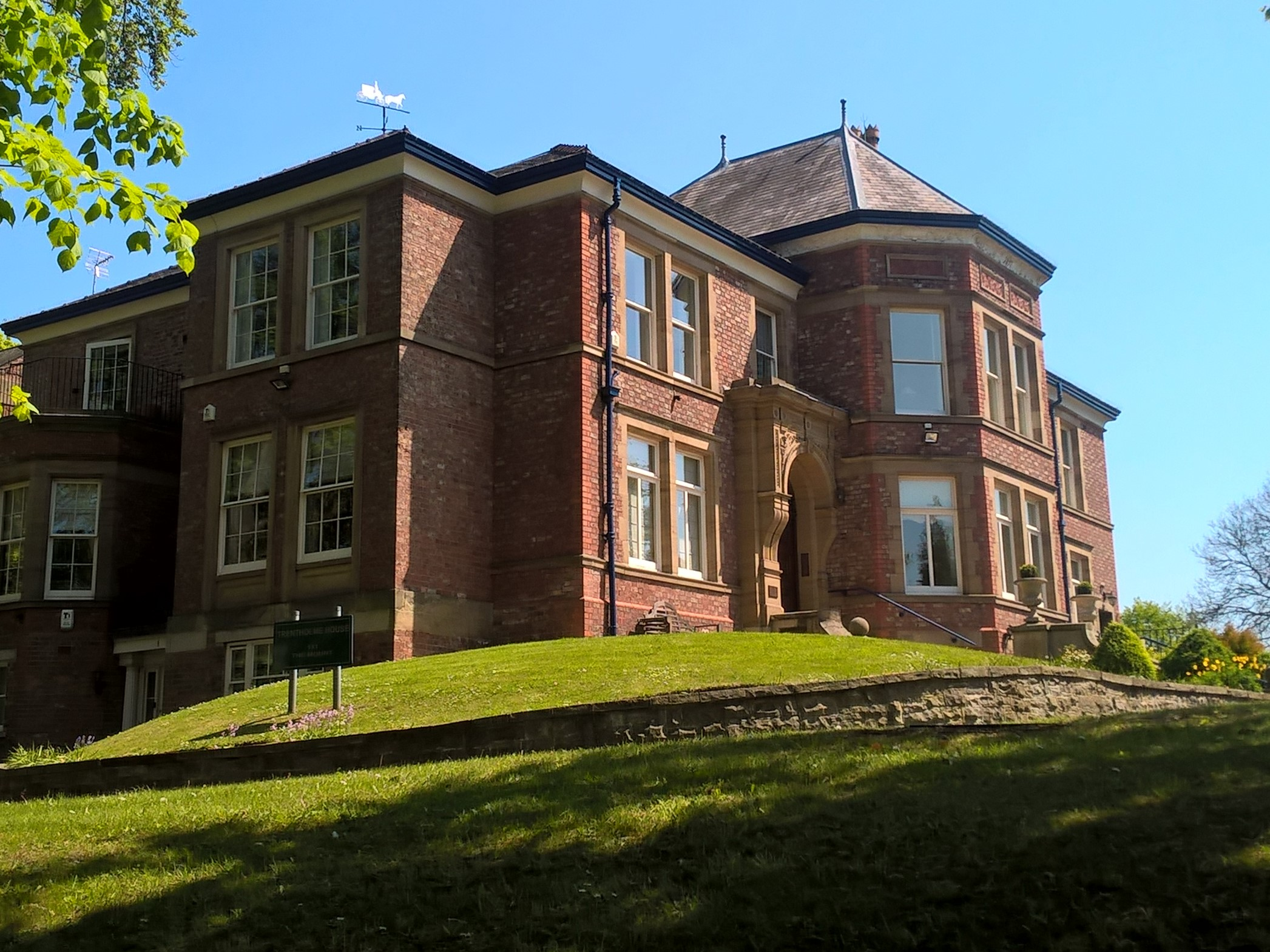 Trentholme, The Mount, York. Built in 1833 and remodelled by E. P. Brett who bought the house in 1897. Brett was the grandfather of J. E. Harold Terry who was living here when he wrote his novel "A Fool to Fame".